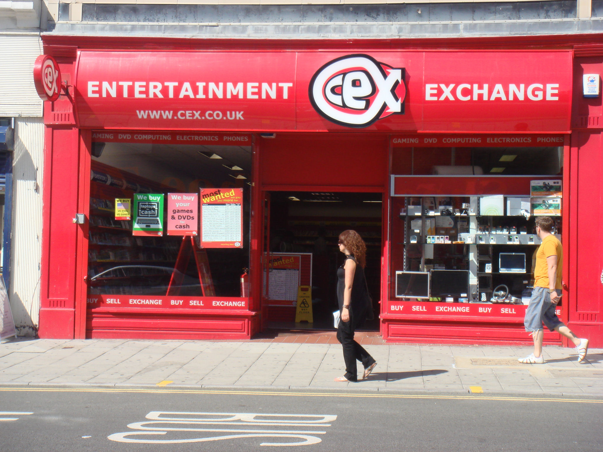 Store frontage of CeX Brighton.